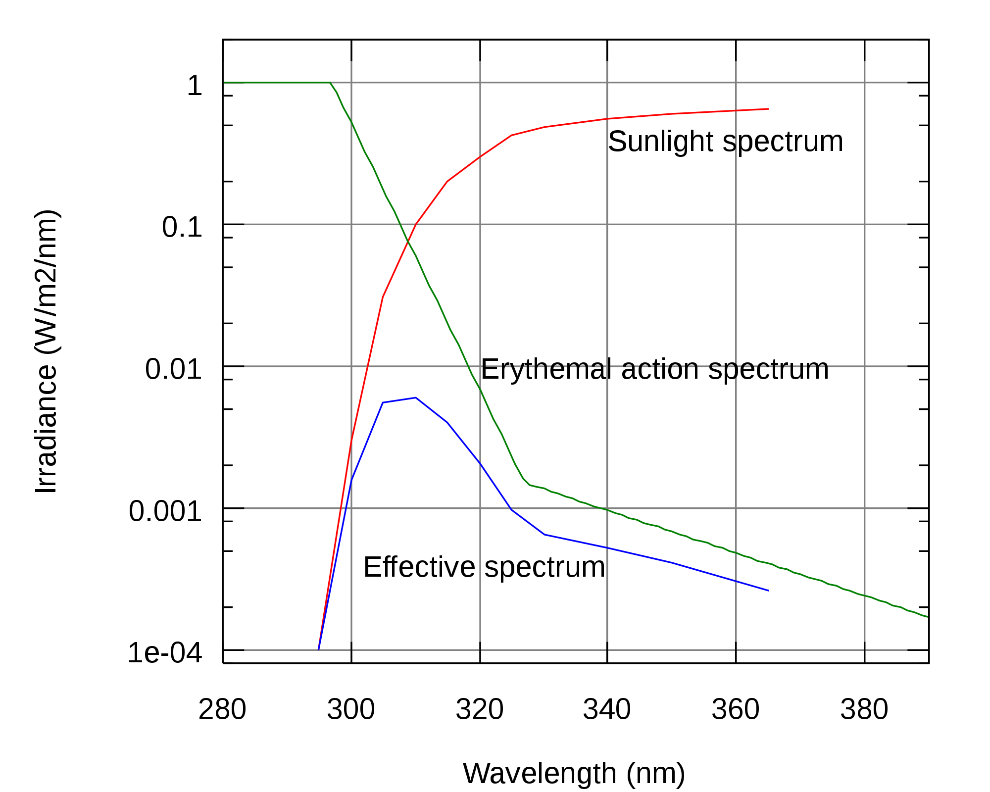 UV-B sunlight spectrum (on a summer day in the Netherlands), along with the CIE Erythemal action spectrum. The effective spectrum is the product of the former two.